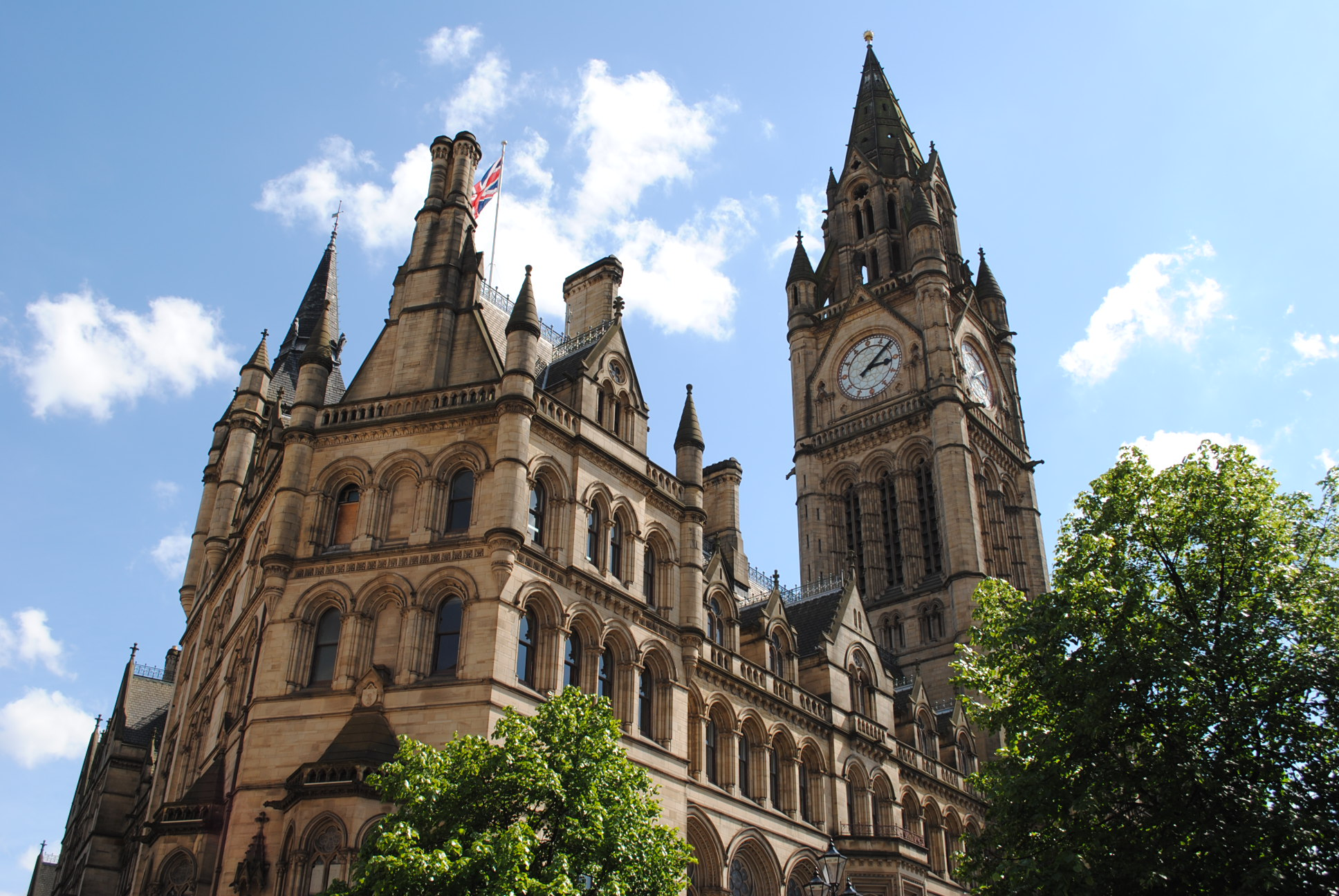 Manchester Town Hall